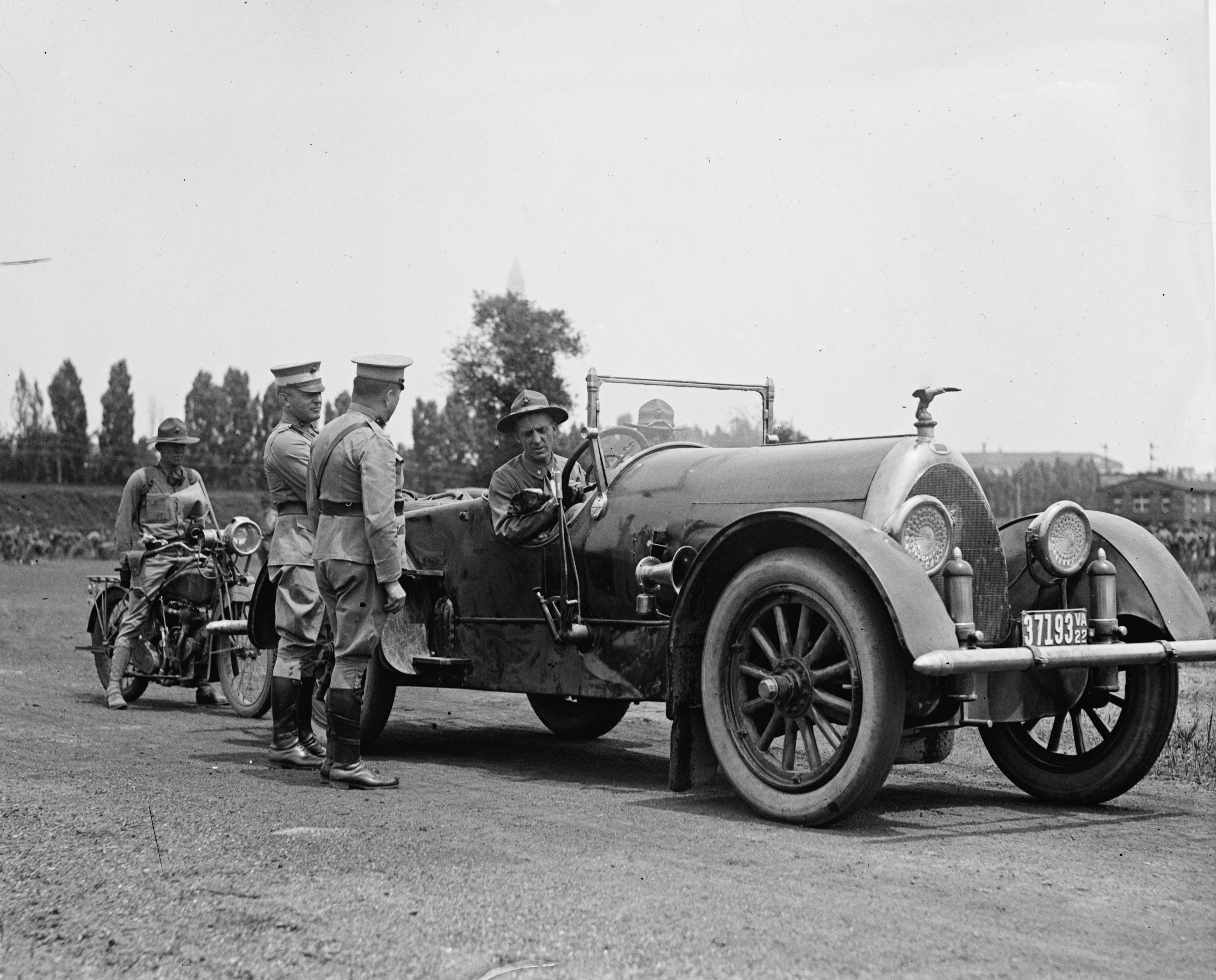 Brigadier General Smedley D. Butler in car at Gettysburg, Pennsylvania during a Pickett's Charge reenactment in 1922 by United States Marines. Note by FieldMarine: the man standing far left of vehicle looks like Lieutenant General John A. Lejeune.